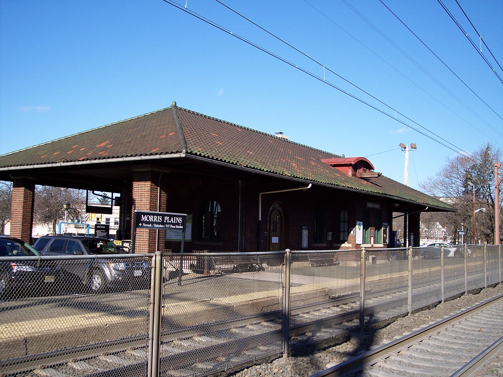 Train station in Morris Plains, NJ